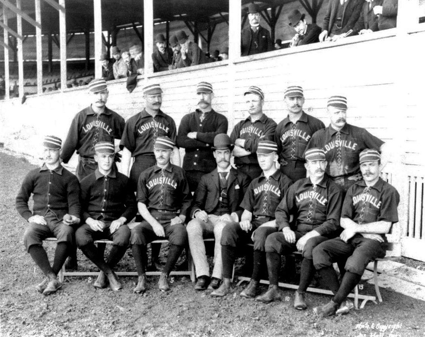 1888 Louisville Colonels baseball teamBack row: Skyrocket Smith, Guy Hecker, Pete Browning, John Kerins, Paul Cook, Joe WerrickFront row: Toad Ramsey, Ice Box Chamberlain, Bill White, Kick Kelly, Scott Stratton, Jimmy Wolf, Hub Collins